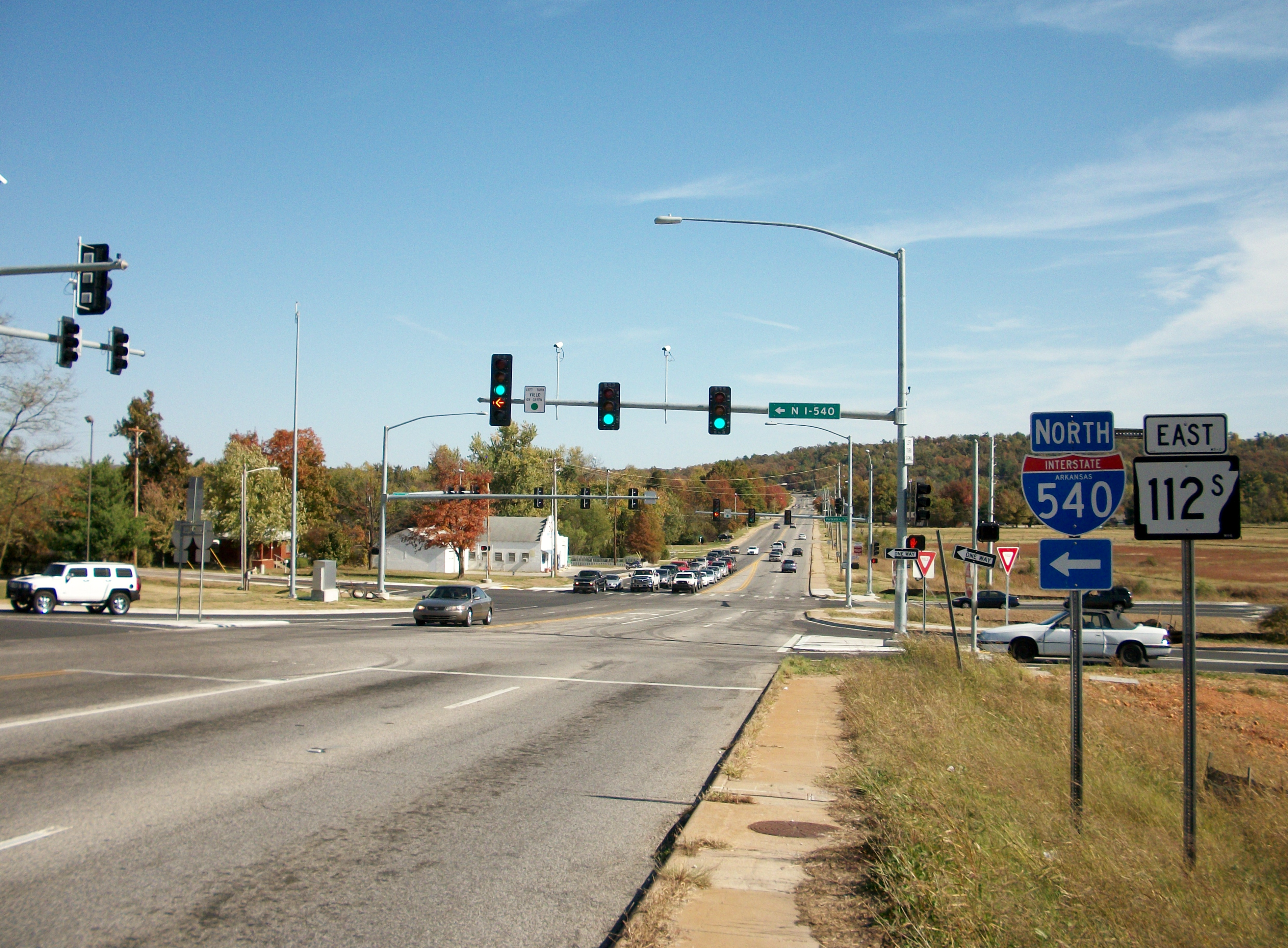 Arkansas Highway 112S begins at I-540 in Fayetteville. This photo is facing east.